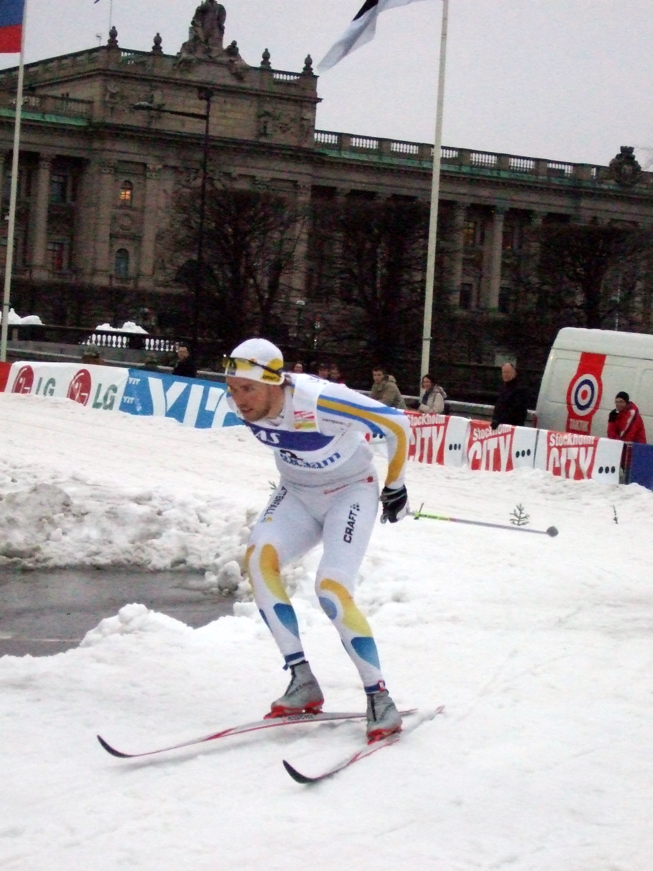 Björn Lind at the Royal Castle World Cup sprint in Stockholm, Sweden